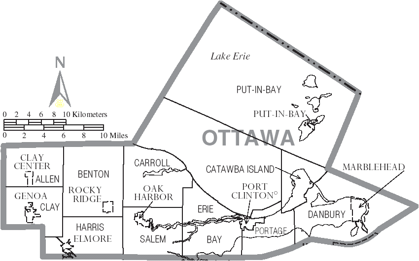 Map of Ottawa County, Ohio, United States with township and municipal boundaries